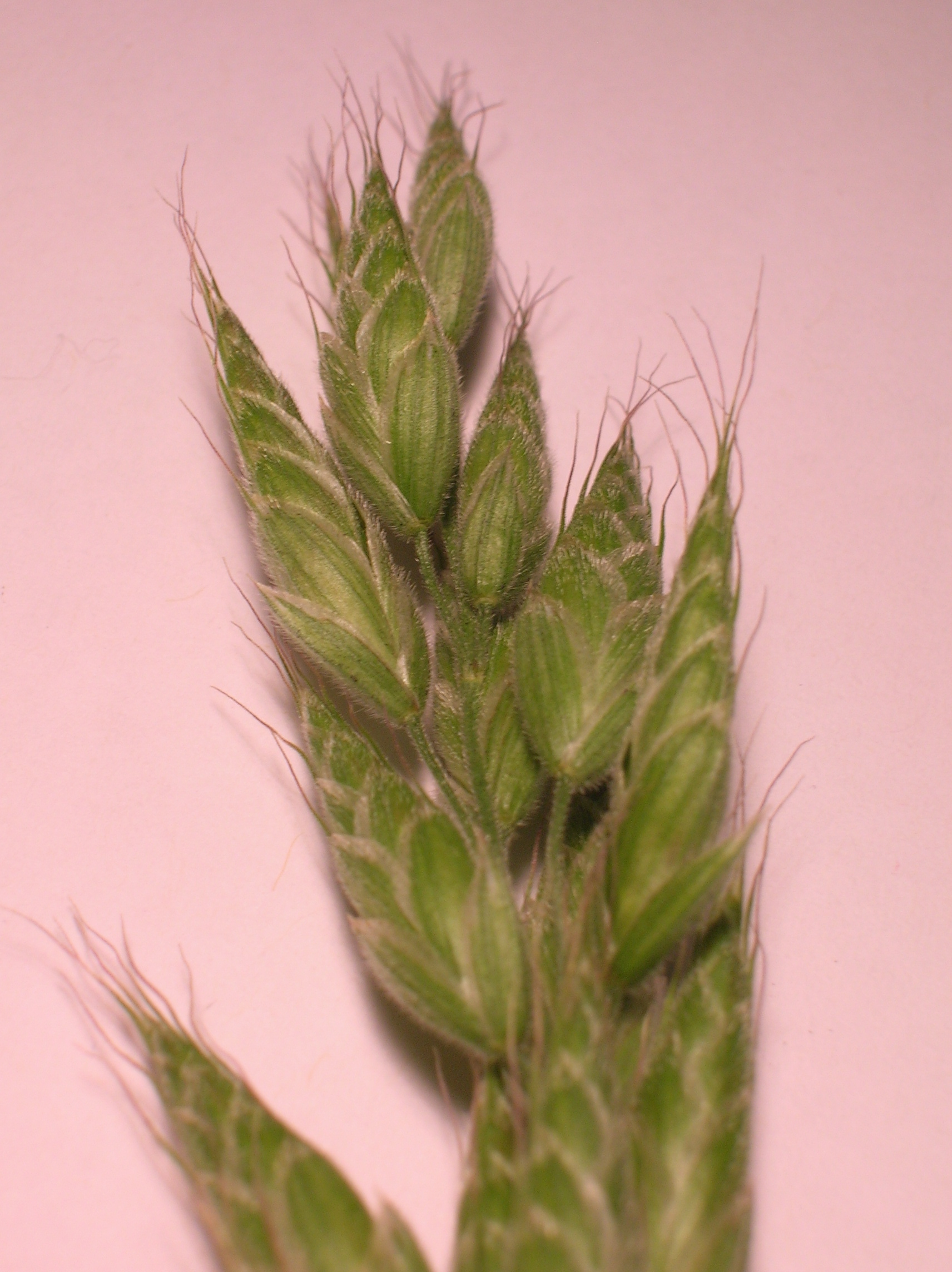 Spikelets of a Bromus commutatus panicle. The Meadow Brome. Spier's, Beith, Ayrshire, Scotland.